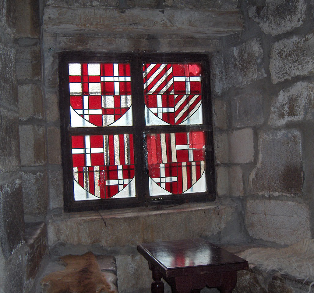 Window with the arms of the Knights Hospitaller; English tower, St. Peter's castle, Bodrum, Turkey